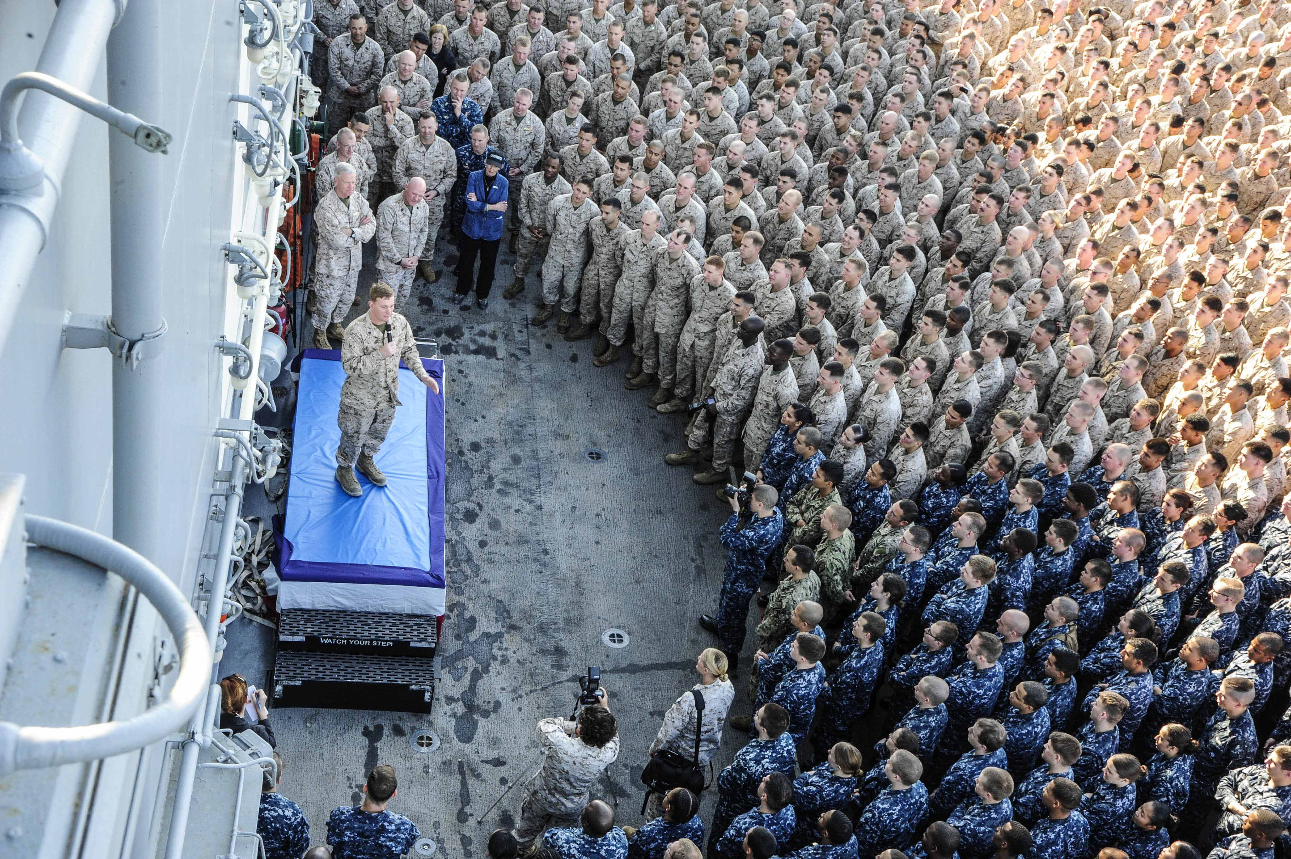 ARABIAN GULF (Dec. 27, 2013) Medal of Honor recipient Dakota Meyer delivers remarks to Sailors and Marines during an all-hands call on the flight deck aboard the amphibious assault ship USS Boxer (LHD 4). Boxer is the flagship for the Boxer Amphibious Ready Group and, with the embarked 13th Marine Expeditionary Unit, is deployed in support of maritime security operations and theater security cooperation efforts in the U.S. 5th Fleet area of responsibility. (U.S. Navy photo by Mass Communication Specialist Seaman Veronica Mammina/Released) 131227-N-GM561-328